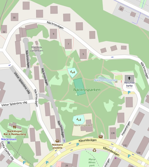 Näckrosen in Solna, Sweden